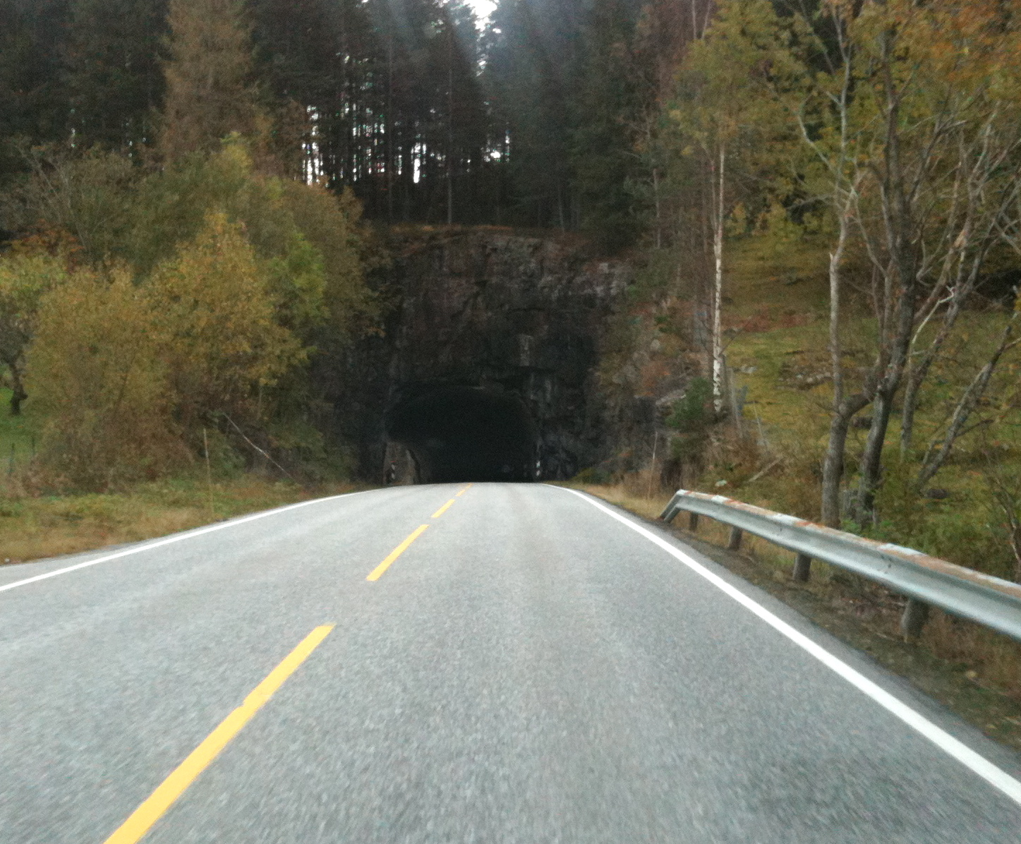 Akslandtunnelen in the municipality of Vindafjord in Rogaland, Norway.